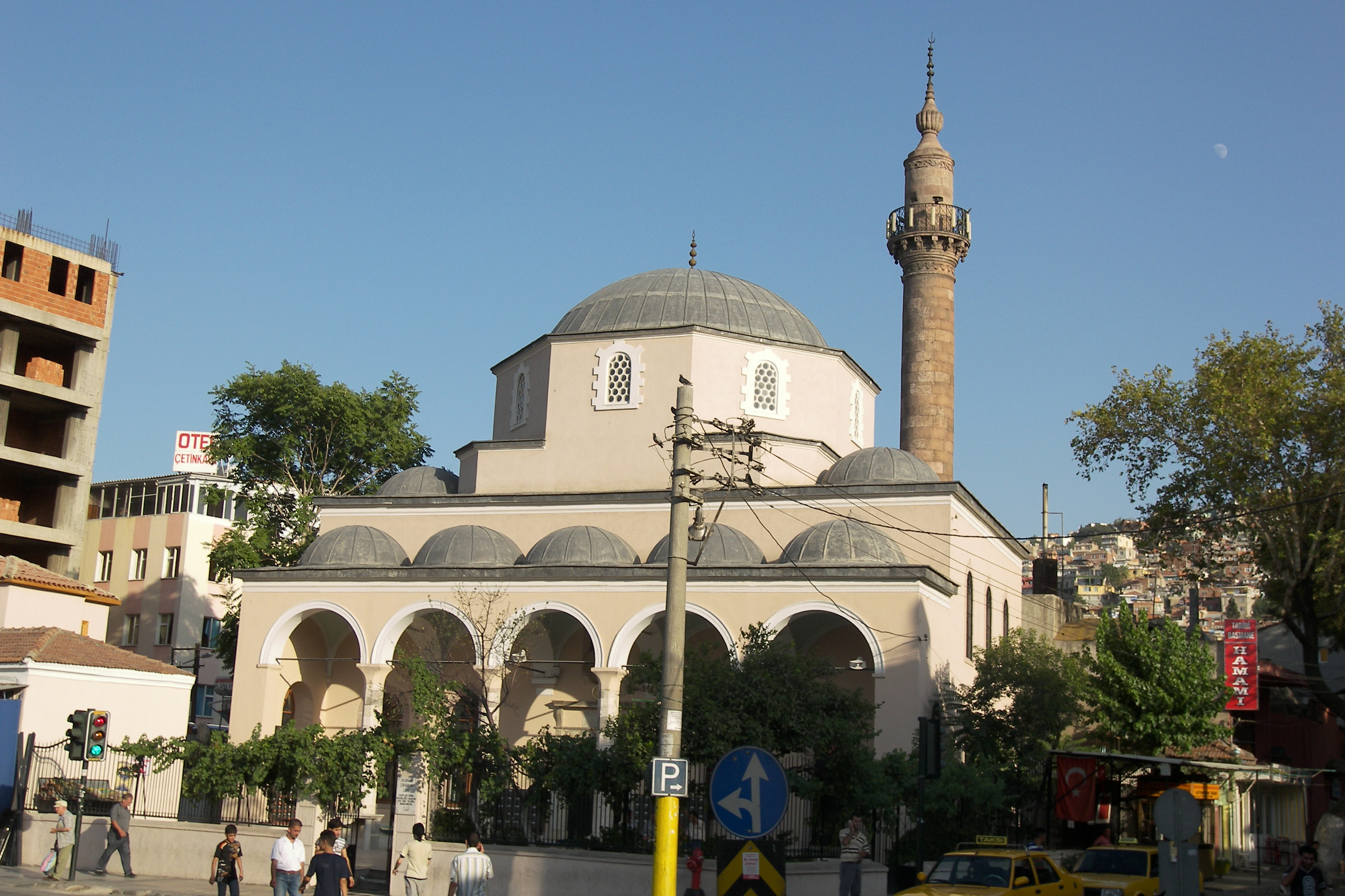 Çorakkapı Mosque in Basmane, Izmir, Turkey.